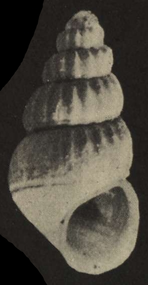 Black and white photo of apertural view of the paratype of Alvania gallinacea, (synonym: Alvinia gallinacea, Linemera gallinacea from Poor Knights Islands.